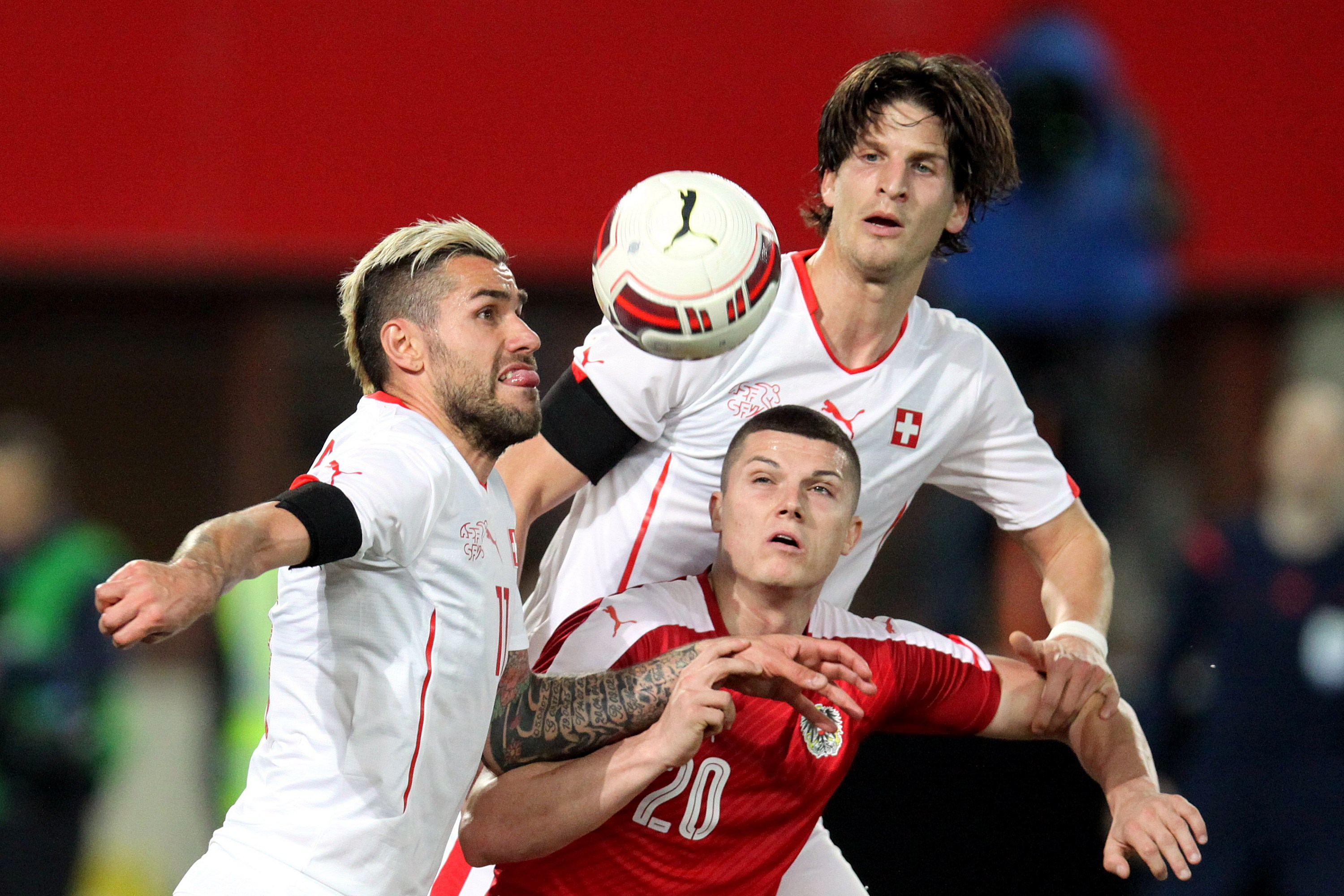 Friendly match – Austria (red shirts) vs. Switzerland (white shirts) 1-2 (1-2) – 2015-11-17 in Vienna, Ernst-Happel-Stadion – The photo shows Valon Behrami (left), Marcel Sabitzer (right) and Timm Klose (behind).